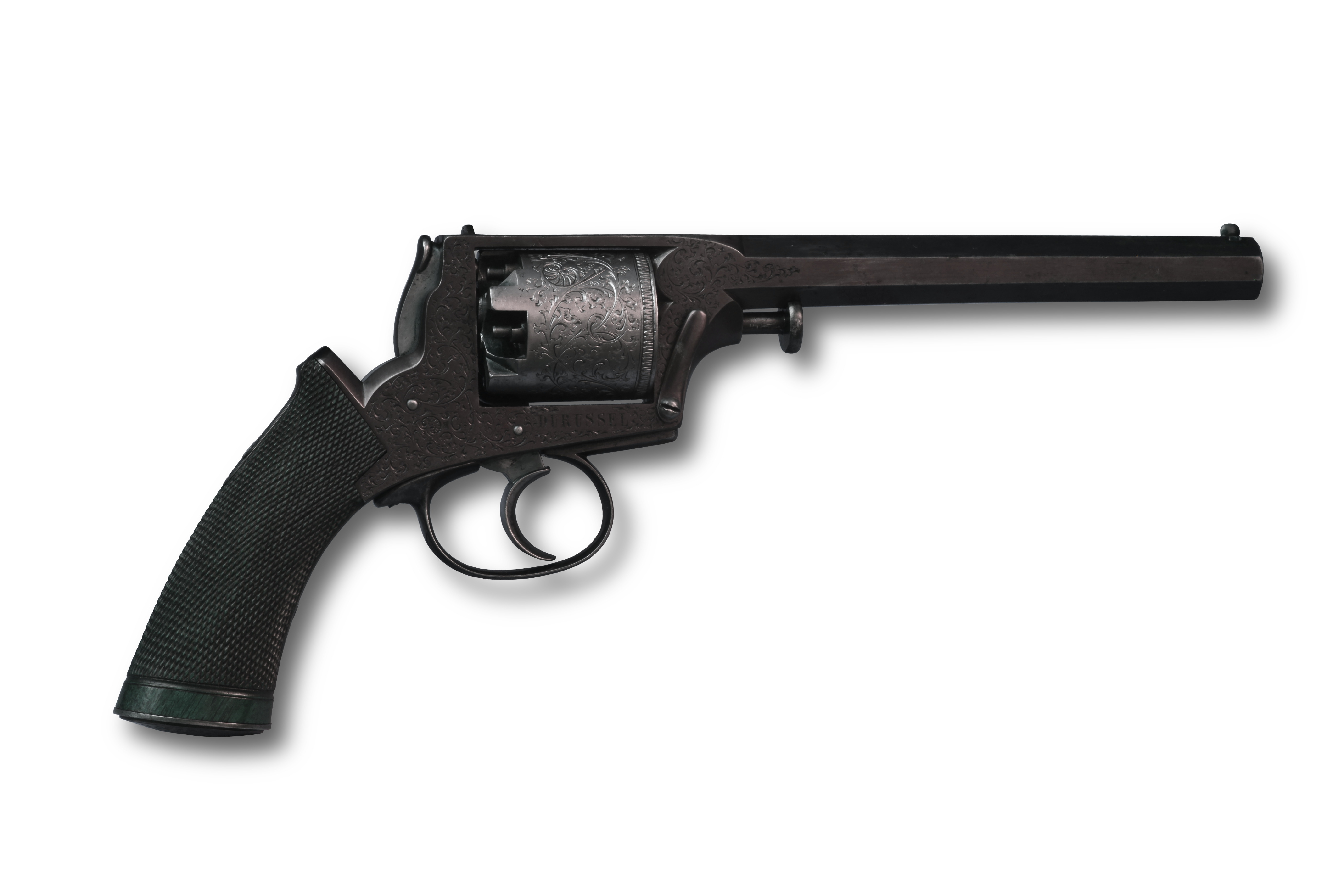 Adams Revolver, made by Durussel in Morges circa 1860. On display at Morges military museum, accession number MMV 1003924.